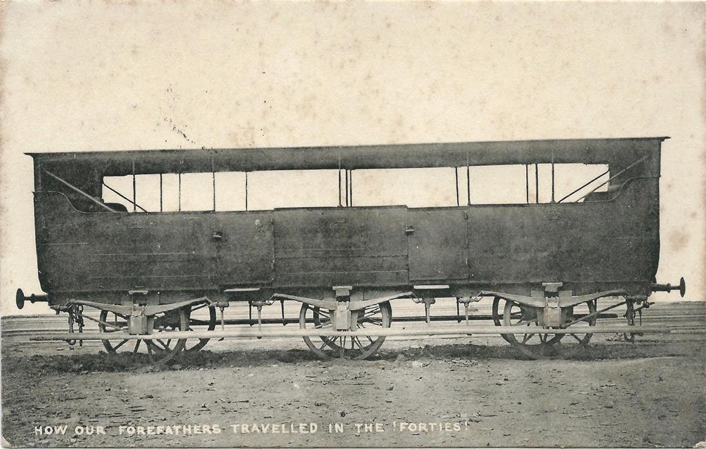 A Great Western Railway postcard showing 'how our forefathers travelled in the (18)40s'. It depicts a six-wheeled open third class carriage that was built in 1851 for the Vale of Neath railway. At that time it had no roof but one was added later. From 1870 it was used for milk traffic when the flow of air helped keep the milk cool.